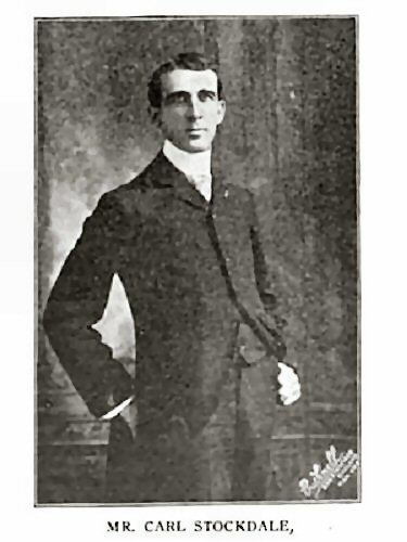 Carl Stockdale